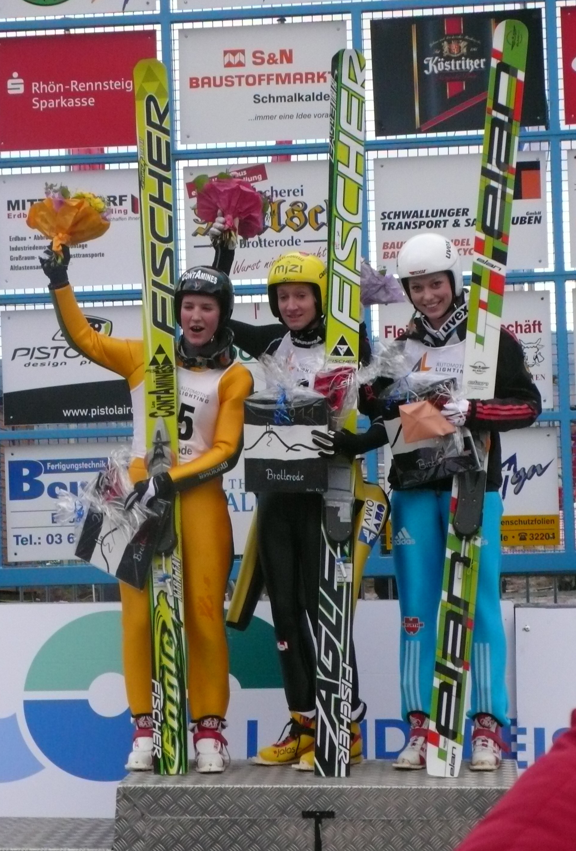 Daniela Iraschko 1st, Coline Mattel 2nd, Melanie Faisst 3rd at Brotterode on the 2011-02-06